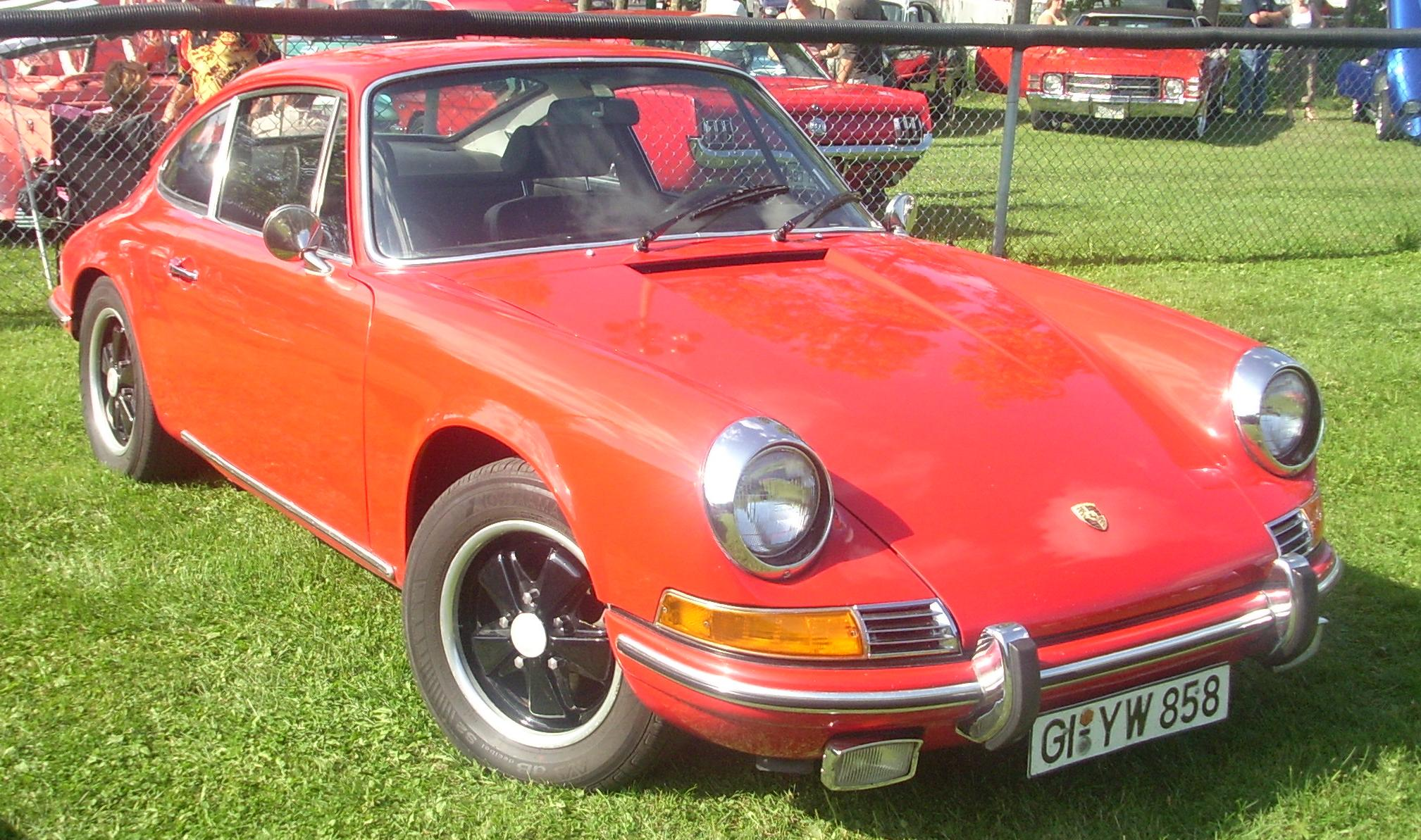 Porsche 911 photographed at the Rassemblement Rigaud Car Show.